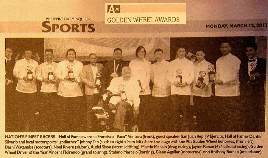 Francisco C. Ventura accepts the Hall of Fame award at the 2011 Golden Wheel Awards on March 3, 2012 at the Cultural Center of the Philippines.